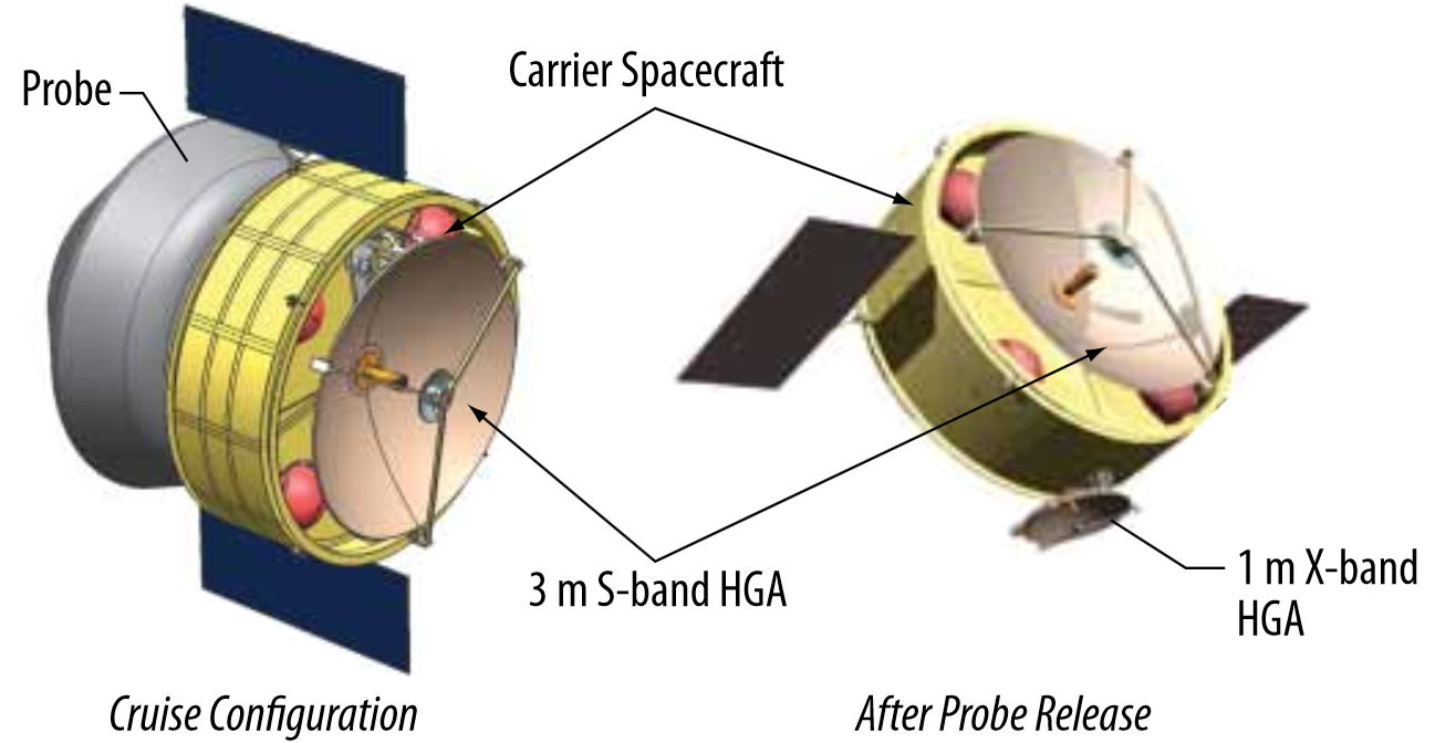 Venus mobile explorer : carrier spacecraft